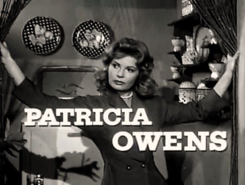 Patricia Owens in the film Hell to Eternity (1960) - trailer (cropped screenshot)